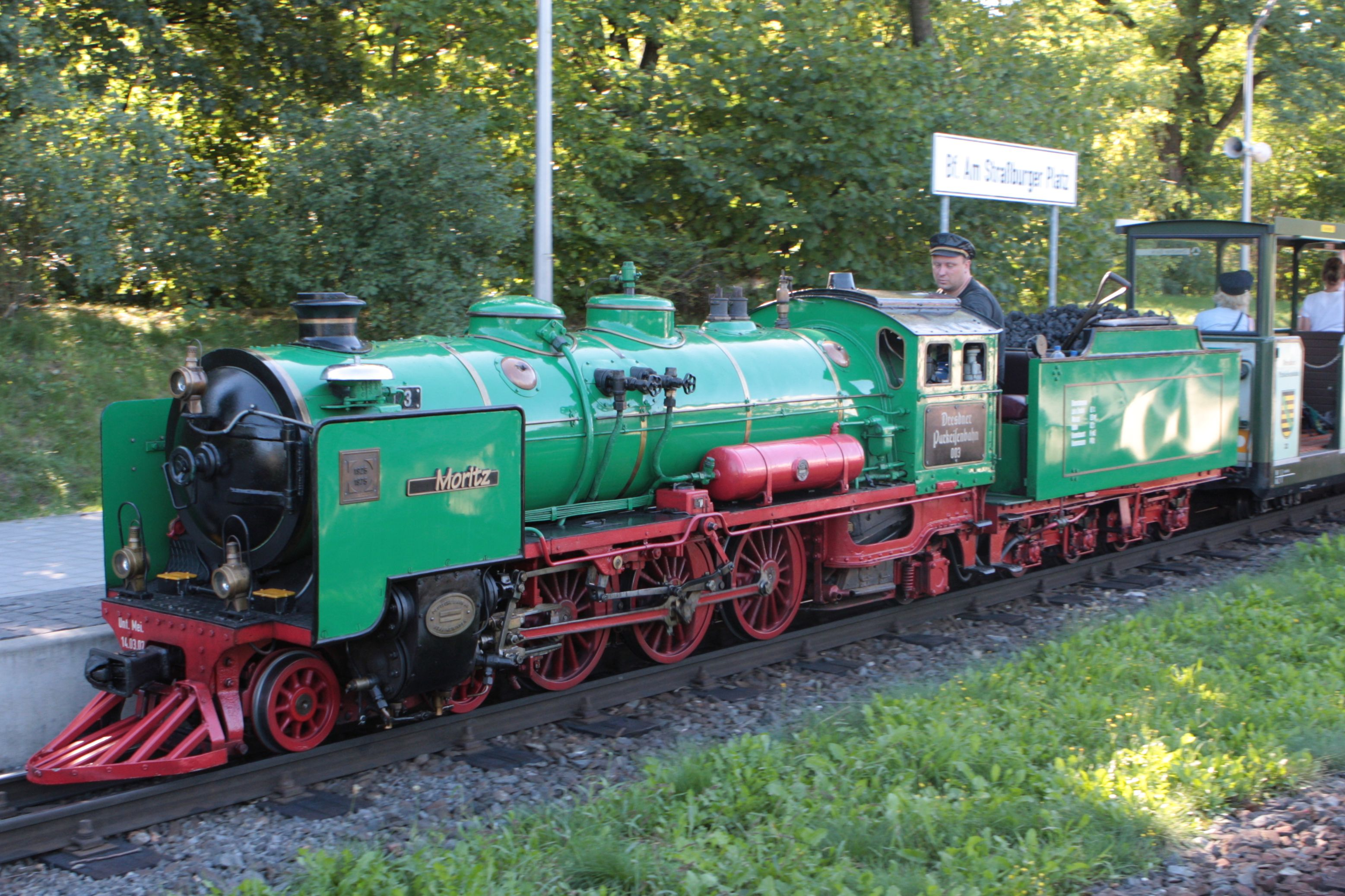 steam engine "Moritz" (Dresden Park Railway)